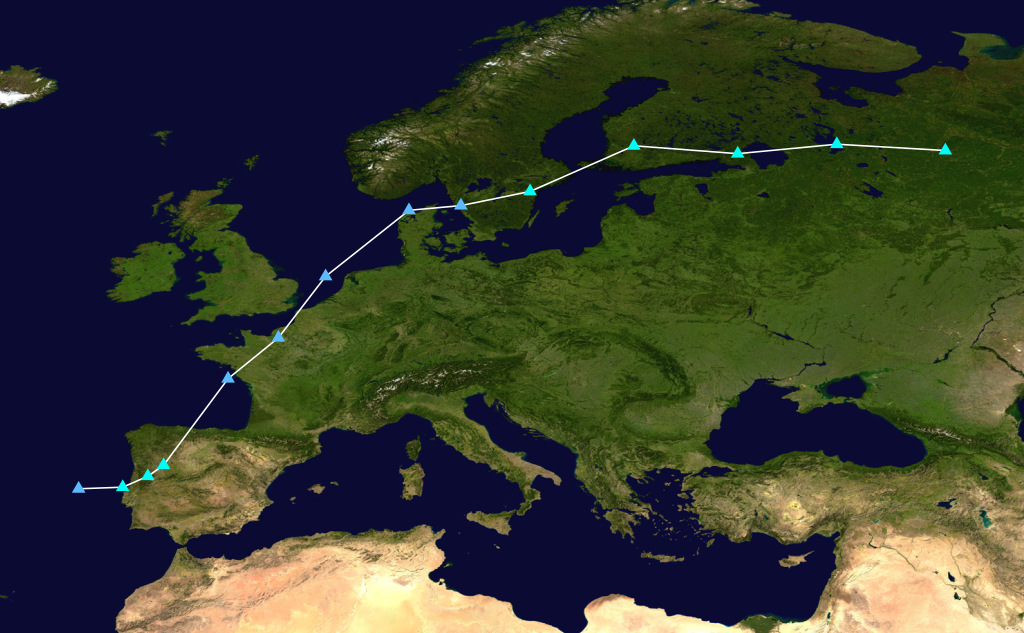 Track map of Storm Daniel of the 2019-20 European windstorm season. The points show the location of the storm at 6-hour intervals. The colour represents the storm's maximum sustained wind speeds as classified in the Saffir–Simpson scale (see below), and the shape of the data points represent the nature of the storm, according to the legend below. Saffir–Simpson scale Tropical depression≤38 mph≤62 km/h Category 3111–129 mph178–208 km/h Tropical storm39–73 mph63–118 km/h Category 4130–156 mph209–251 km/h Category 174–95 mph119–153 km/h Category 5≥157 mph≥252 km/h Category 296–110 mph154–177 km/h Unknown Storm type Tropical cyclone Subtropical cyclone Extratropical cyclone / Remnant low / Tropical disturbance / Monsoon depression